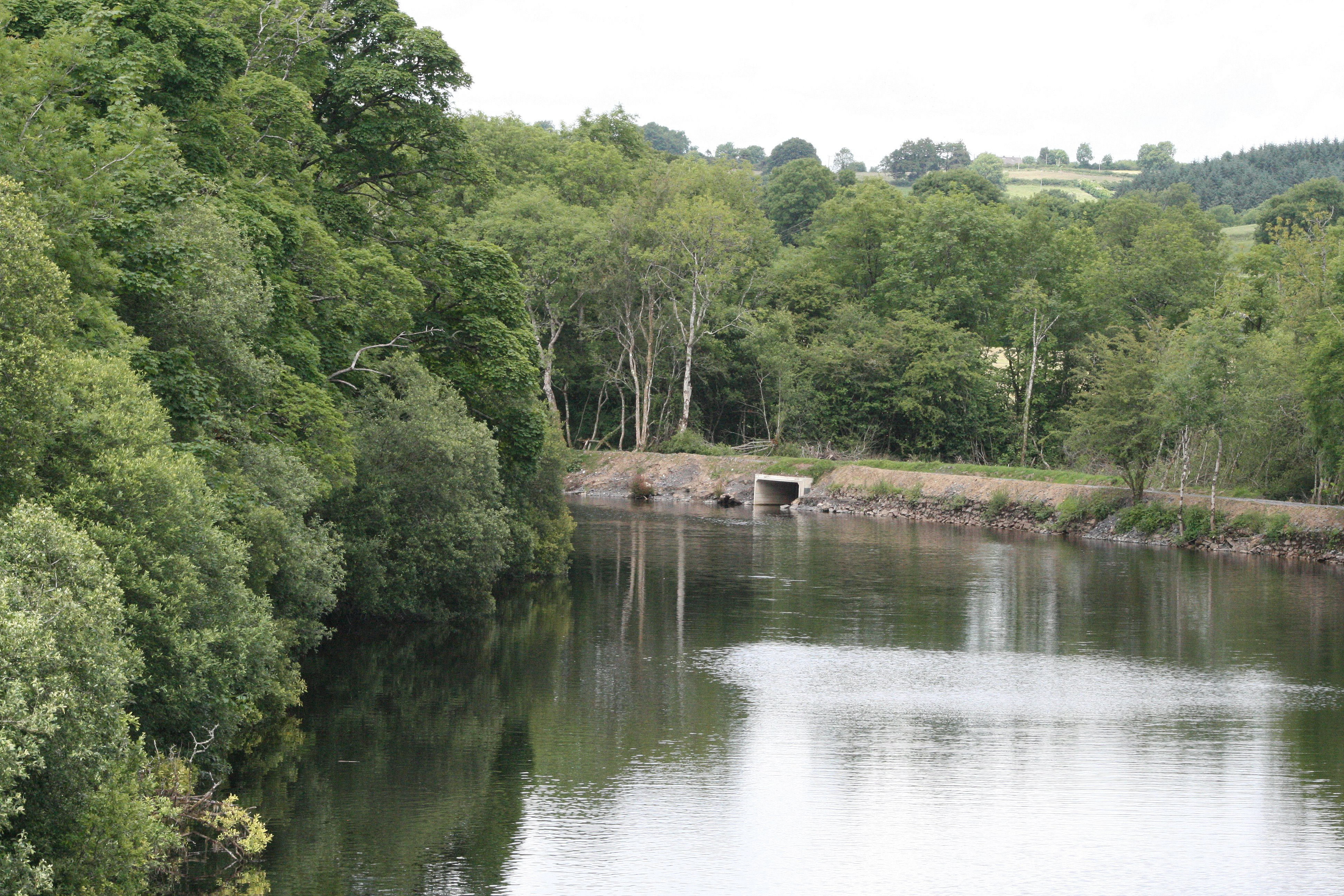 The Boyle River from the bridge at Knockvicar, County Roscommon, Ireland.